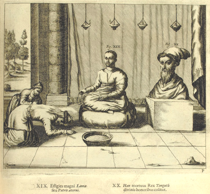 Statues of the 5th Dalai Lama Lobsang Gyatso and (supposedly after Lach & van Kleyn) Güshi Khan, Illustration by jesuit monk Johann Grueber from A. Kircher, China Illustrata, 1661